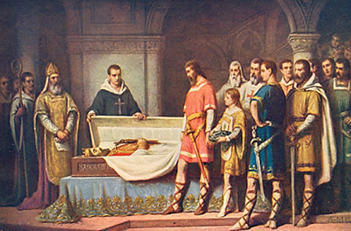 Martim de Freitas opens the casket of King Sancho II of Portugal (1209-1248), to check that he is dead.